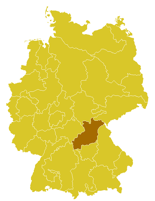 site of dioecese Bamberg